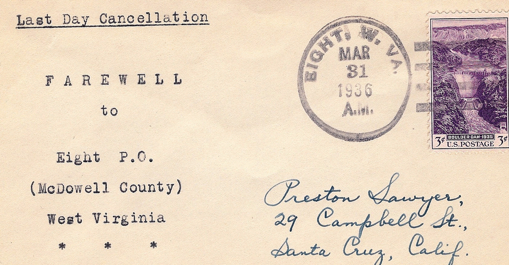 Postmark from Eight WV located in McDowell County WV